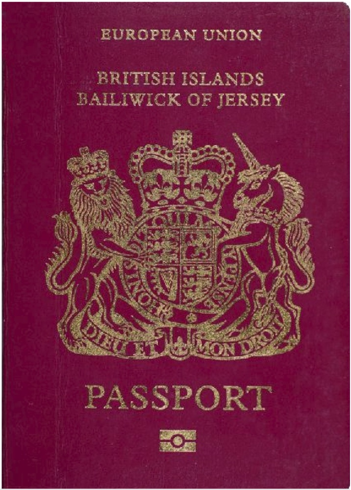 Passport of Jersey